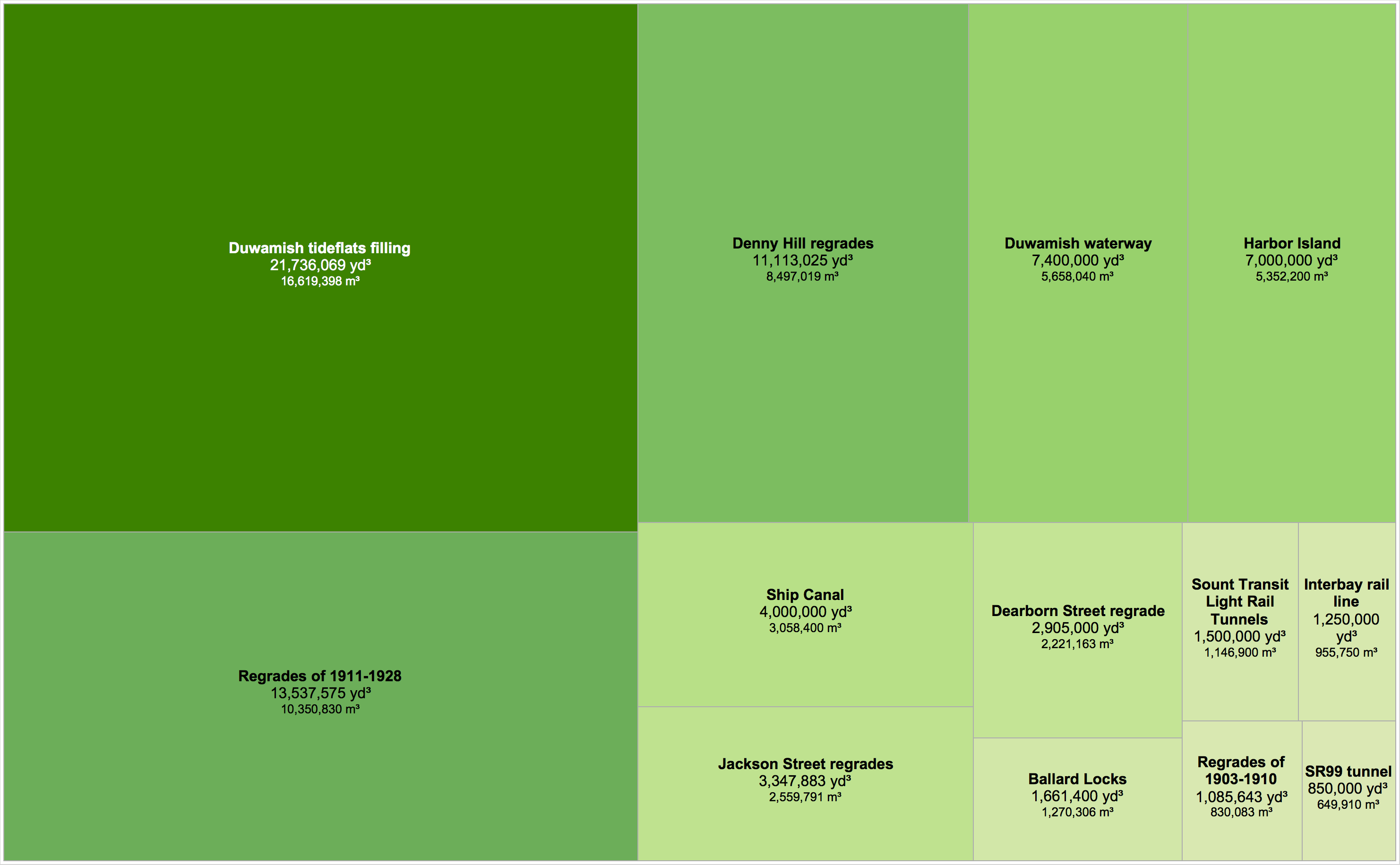 Treemap showing volume of earth moved in Seattle megaprojects, including Denny Regrade, Harbor Island, the Alaskan Way Viaduct replacement tunnel and others.